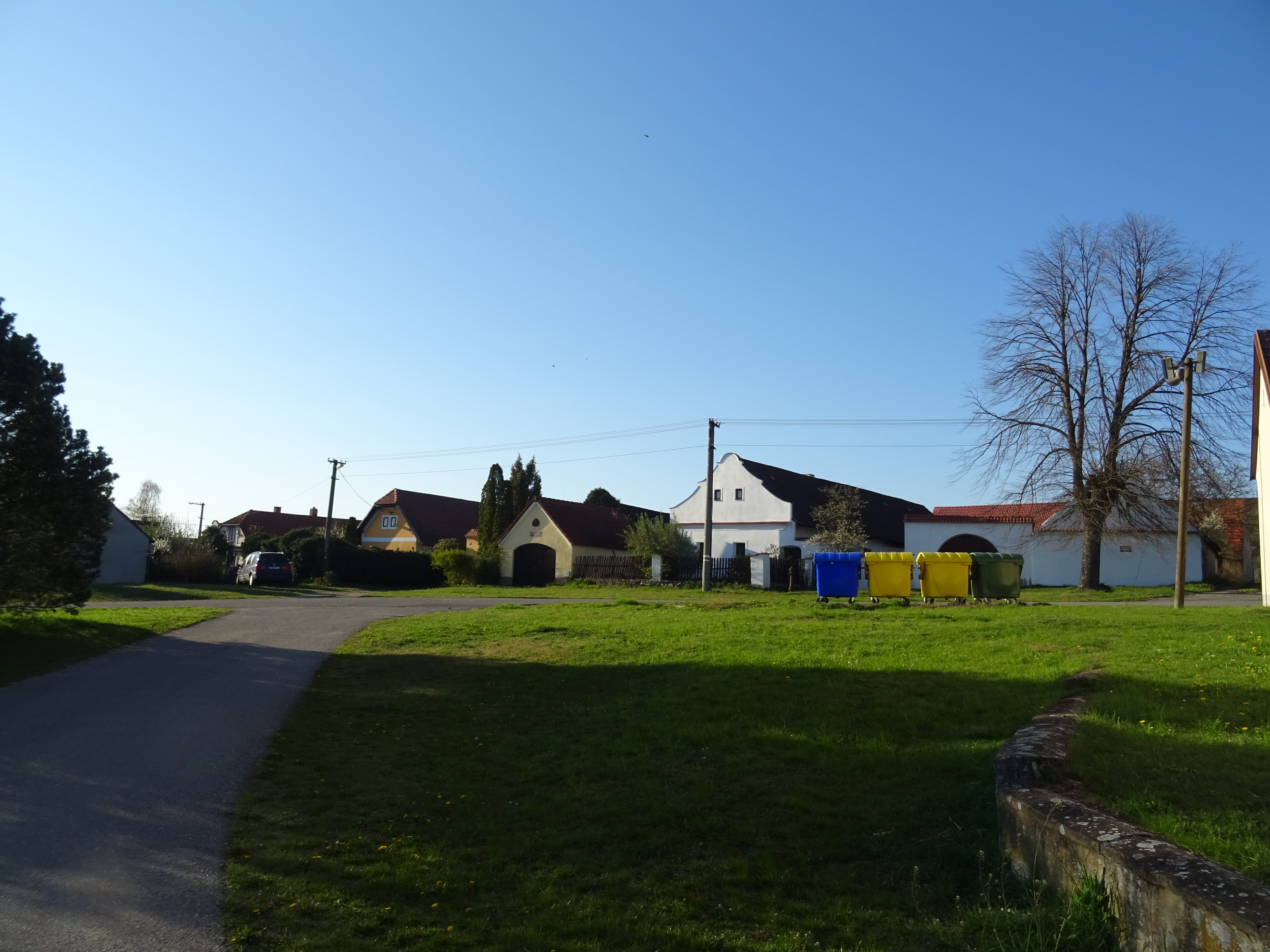 This photograph was created as a part of Wikiexpedition Mladá Vožice, a project supported by Wikimedia Foundation grant.